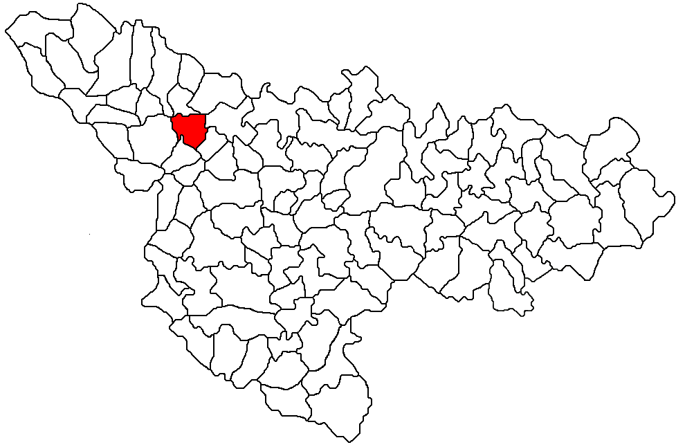 Locator map of the commune of Șandra, Timiș County, Romania